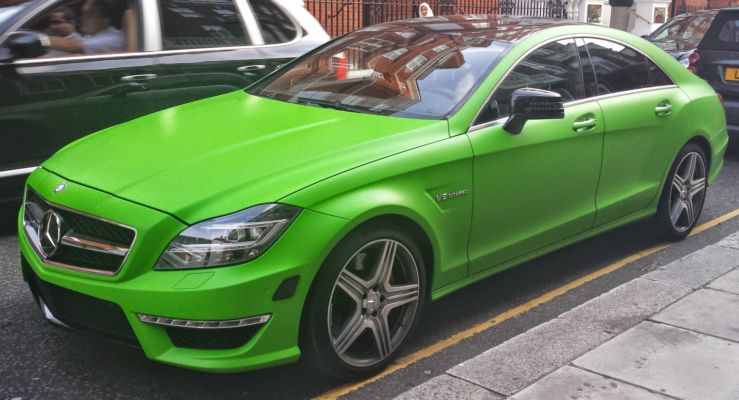 wrapped Mercedes-Benz CLS 63 AMG